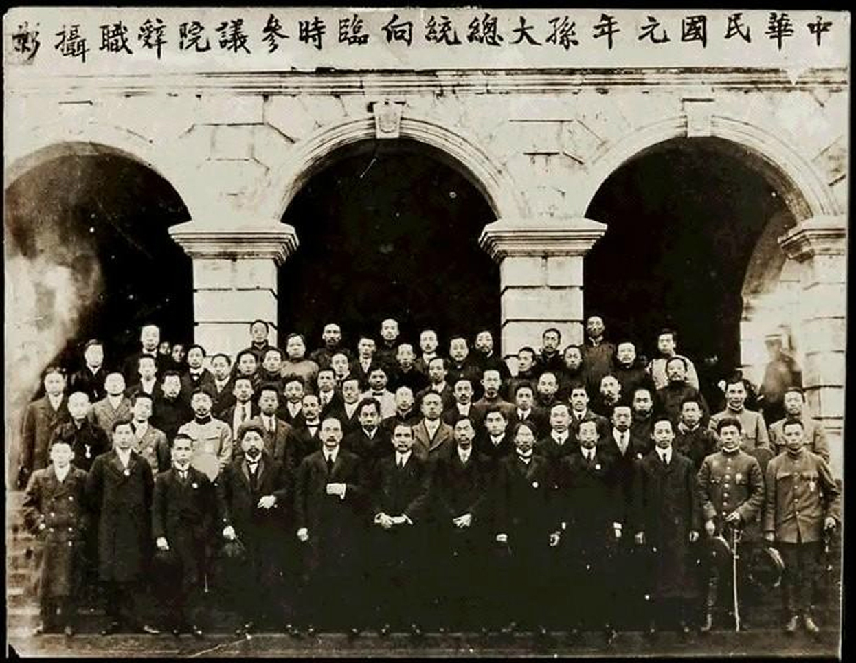 Sun Yat-sen and Nanjing Senate, 1912-4-1